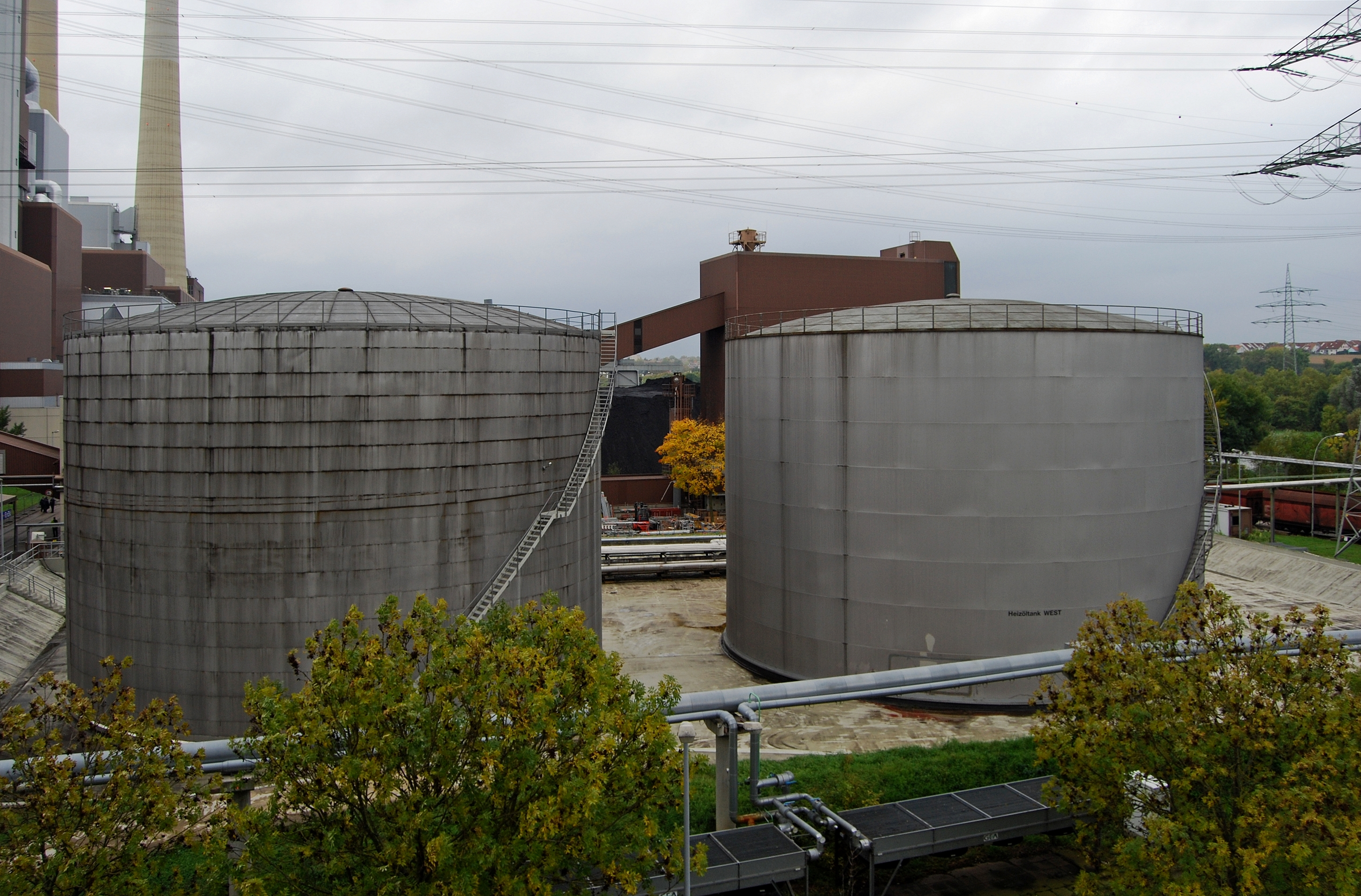 Fuel oil tanks of Heilbronn power plant.